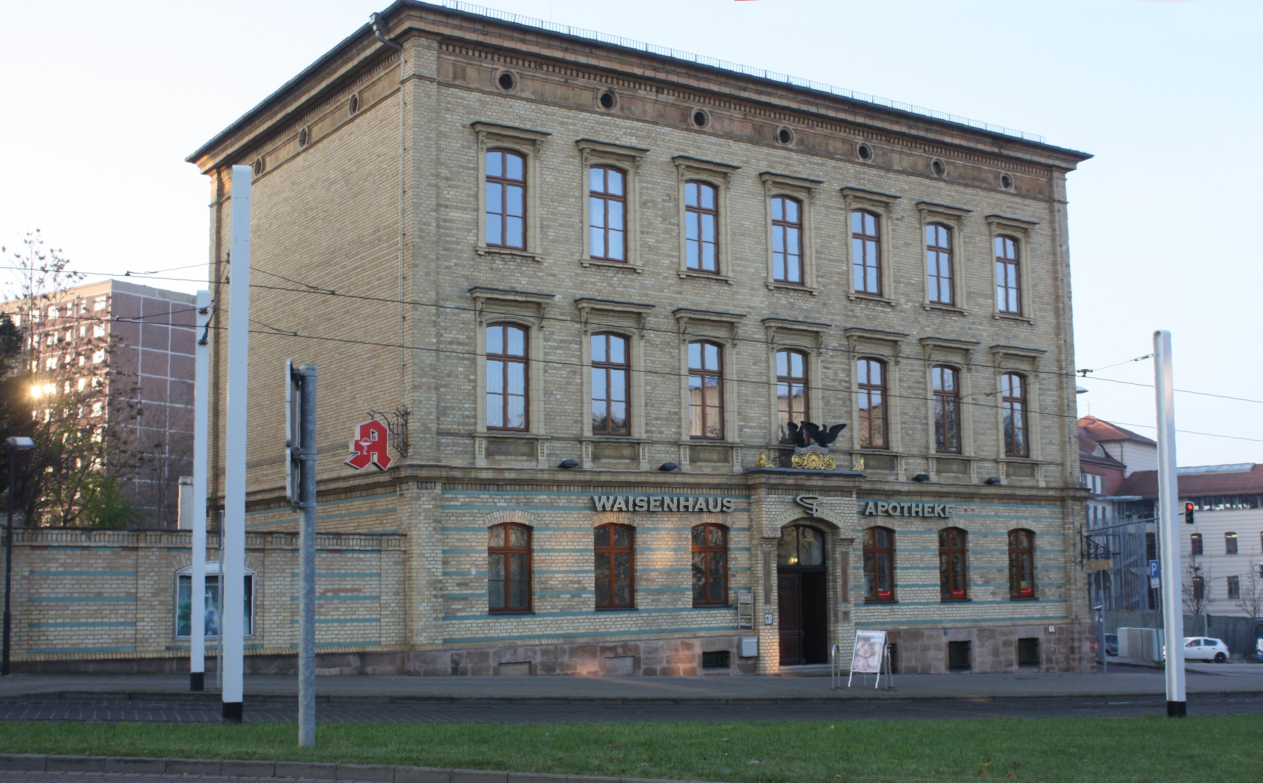 Halle (Saale), the Waisenhaus pharmacy